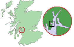 Map showing the location of the Holy Loch within Scotland